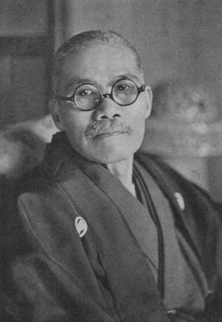 Ueda Kazutoshi (taken in February 1937).